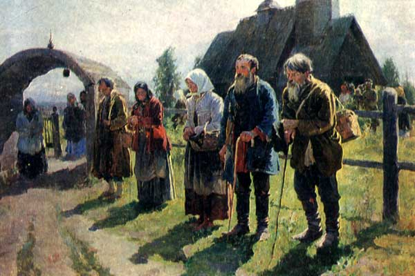 Painting "Beggars" of Russian artist S.A.Vinogradov